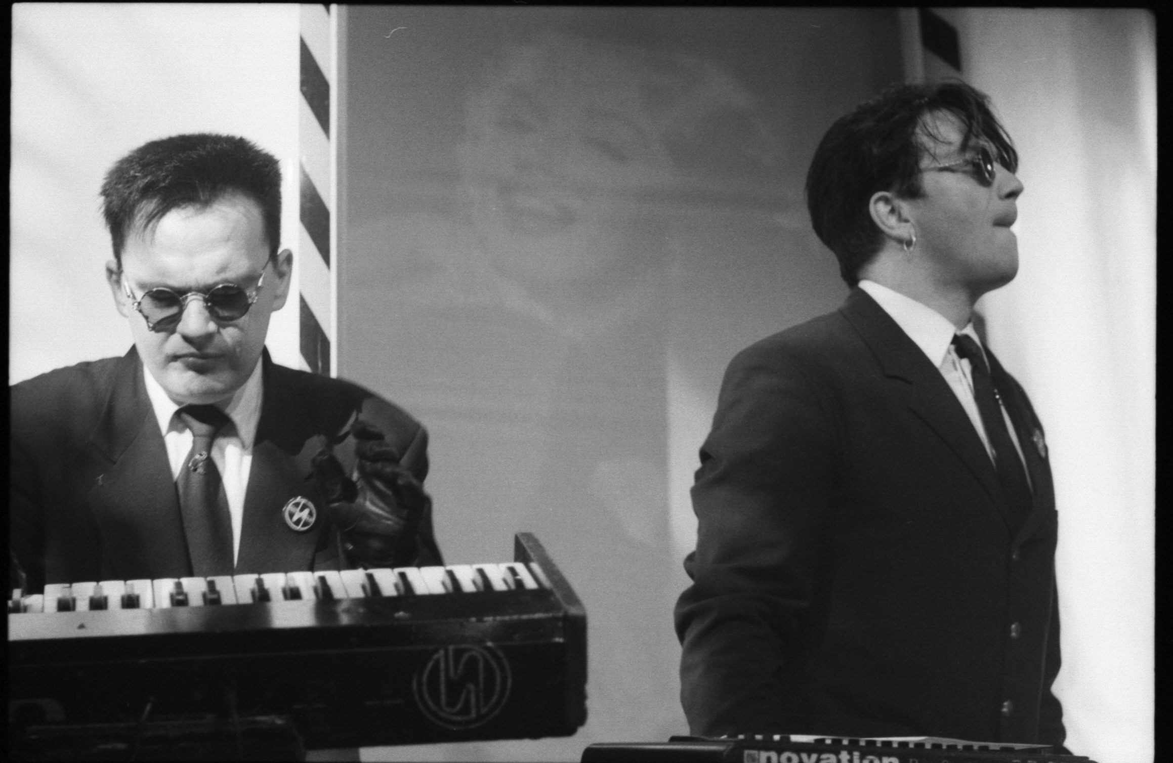 Welle:Erdball in concert in Zurich, 19 December 2008. Photographed with a Leica M3.